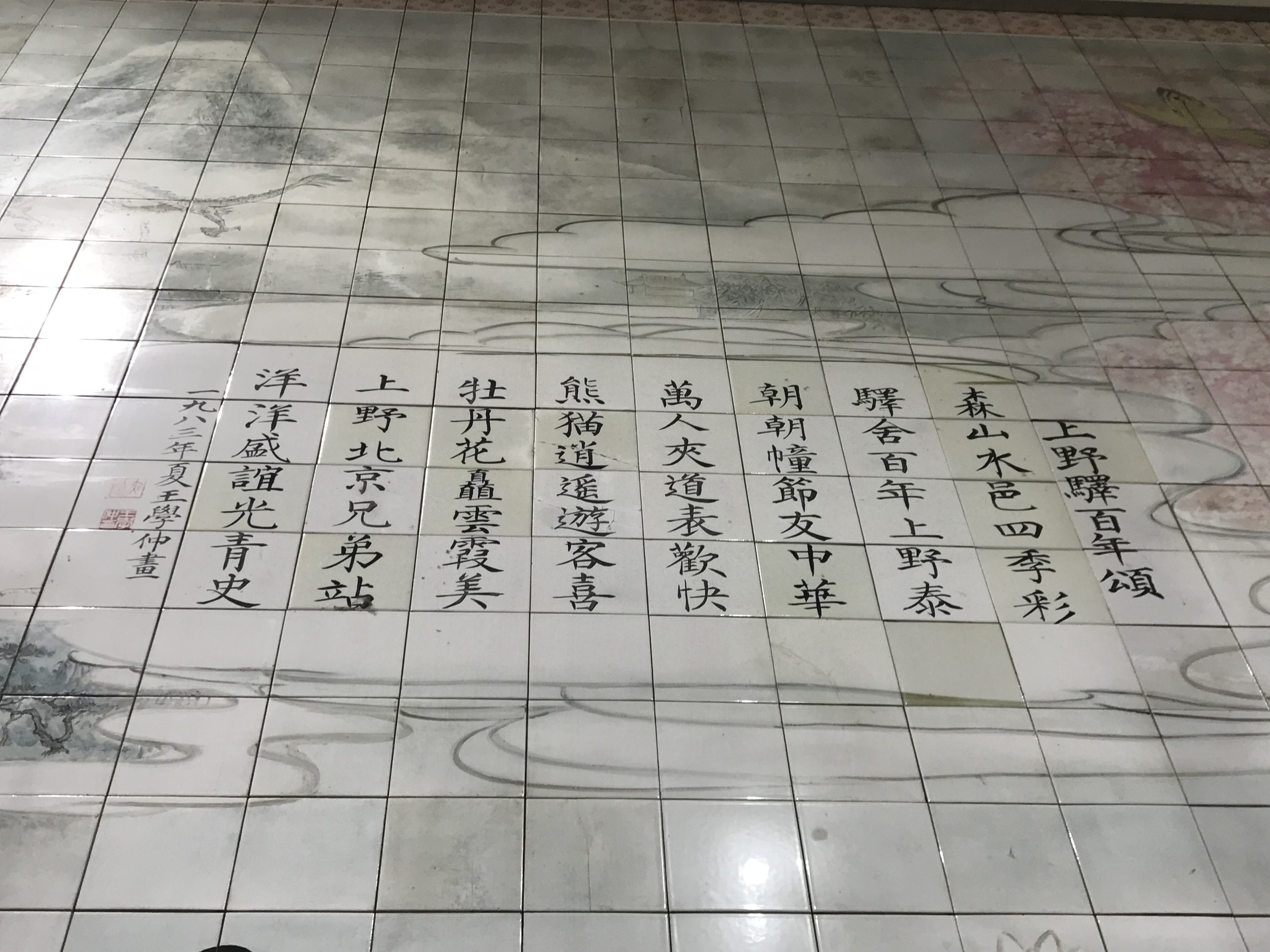 A Chinese poem piece Century Song for Ueno Satation by Wang Xuezhong presented at the paid area for Shinkansen trains of Ueno Station